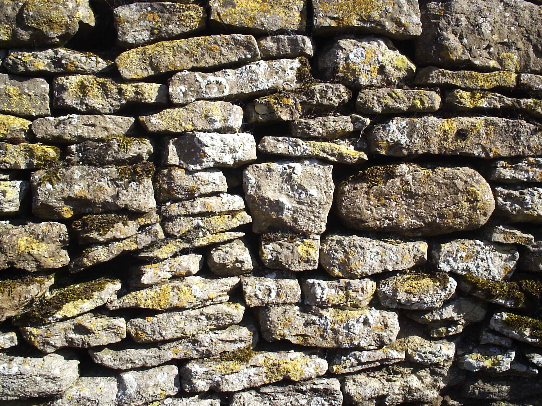 Dry Stone Wall - Blackmile Lane, Grendon, Northamptonshire Picture by R Neil Marshman (c) RNM 23 May 2005